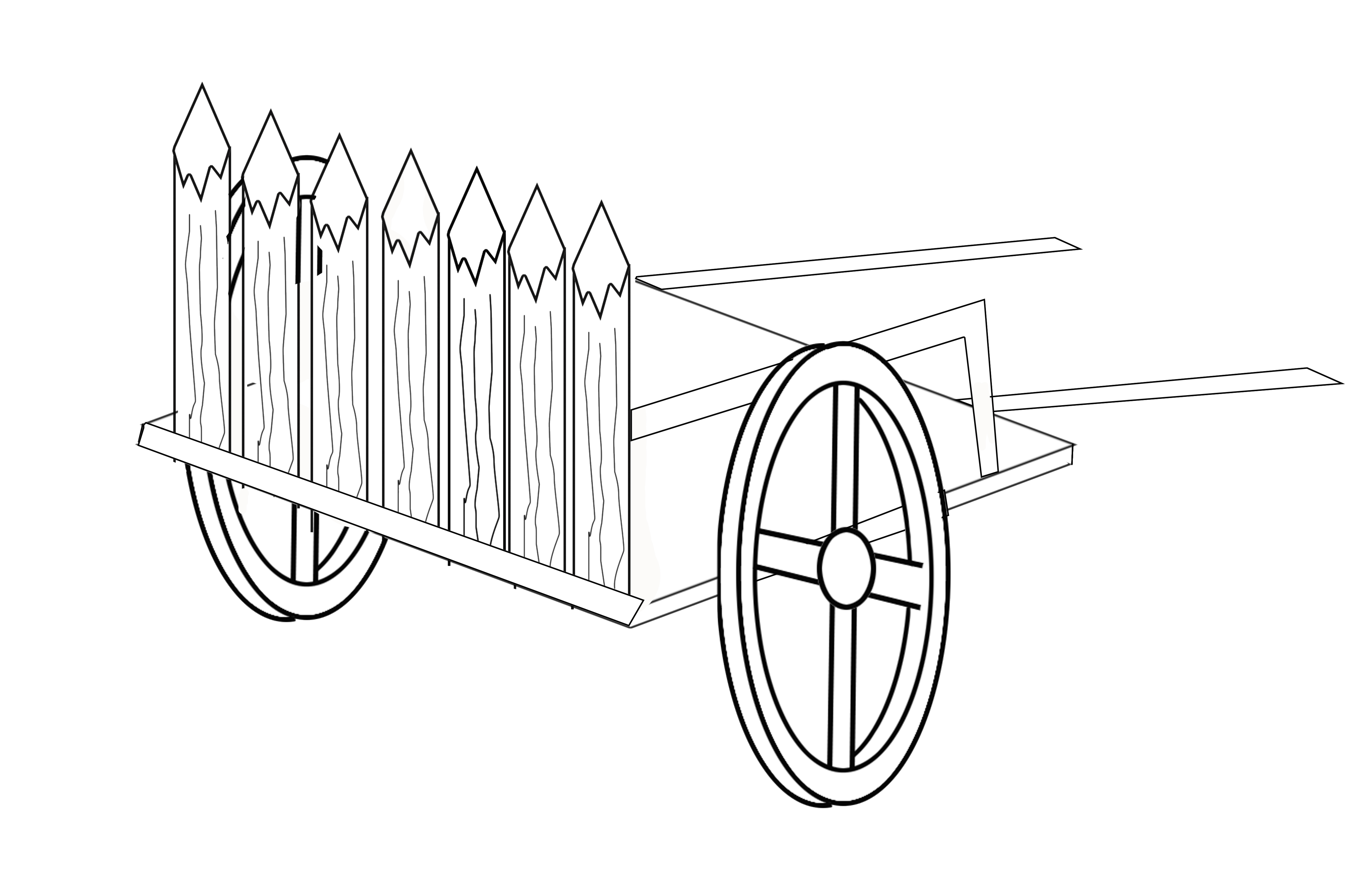 Domuzarabe are a special battle chart made by Serbian rebels during Serbian revolution for fighting Ottoman troops. The name comes from Domuz which means pig in Turkish and Arabe which means fence. It is a charts used by pig merchants for transporting pigs which Serbian soldiers modifed by putting planks or palisade on it. The idea was that soldiers use charts with planks as mobile defense so that they can hide behing palisade on chart and shoot and at same time move. It played pivotal role at victories at battle of Palez and Dublje.